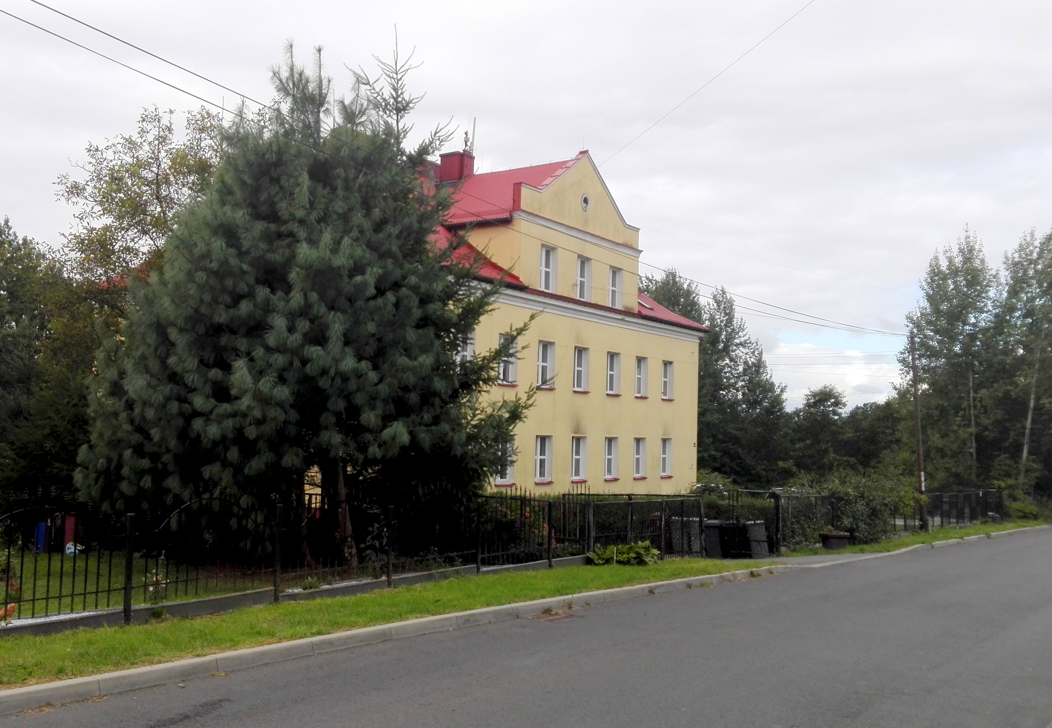 108 Piotrowicka Street in Skrbeńsko. WOP post in Skrbeńsko. Border Protection Forces in Skrbeńsko.